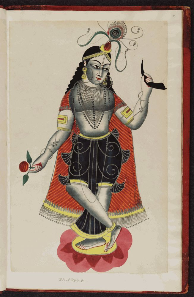 Balarama, brother of Krishna, dancing. Digitized Kalighat painting from 19th century Calcutta, created as inexpensive souvenirs for Hindu pilgrims visiting the famous temple of Kali; The paintings are bound in a single volume, which includes eight hand-coloured woodcut prints (ff. 29-36). They were acquired by Sir Monier Monier-Williams for the Indian Institute Library and Museum at Oxford as a result of his third fund-raising trip to India in the winter of 1883-1884. During this trip, he secured the help of various regional authorities in obtaining local art and craft work and sending them to Oxford. The Kalighat paintings and prints are listed in Babu T.N. Mukherji's "List of Articles collected for the Oxford Institute under the instruction of T.W. Holderness Esq. and Dr. George Watt," Calcutta, 1884, which is bound in the "Original Lists" MS volume held in the Department of Eastern Art, Ashmolean Museum. Shelfmark: MS. Ind. Inst. Misc. 21 [Arch. O. a. 7]